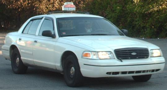 1998-present Ford Crown Victoria photographed in Montreal, Quebec, Canada.